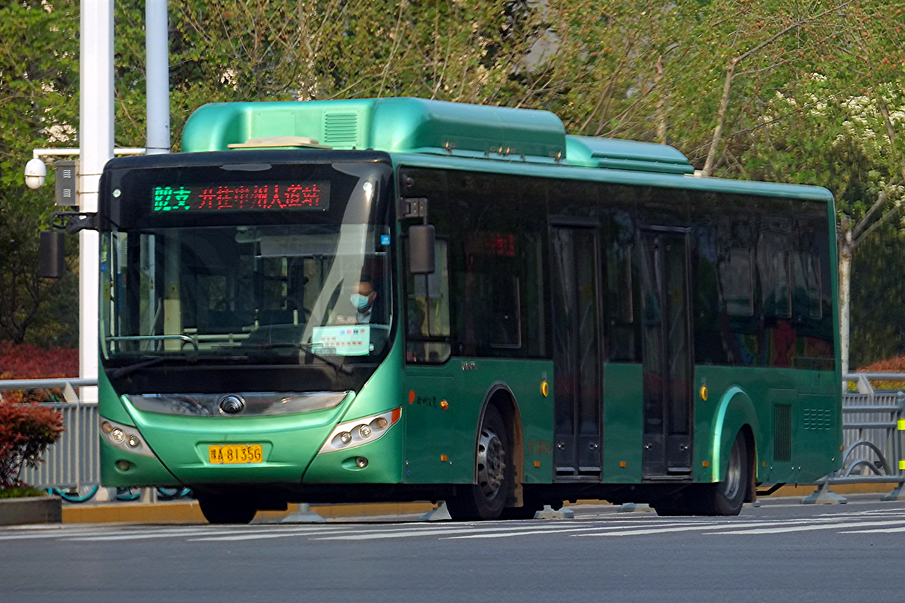 ZZBRT Route B2 Branch line